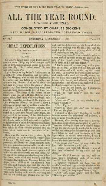 Great Expectations advertised in All the Year Round